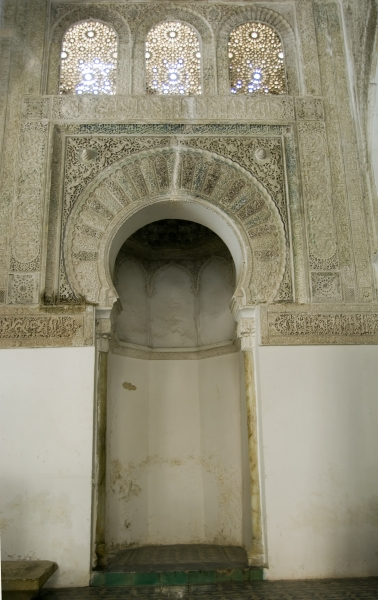 Inside of the mosque Sidi Belahssen